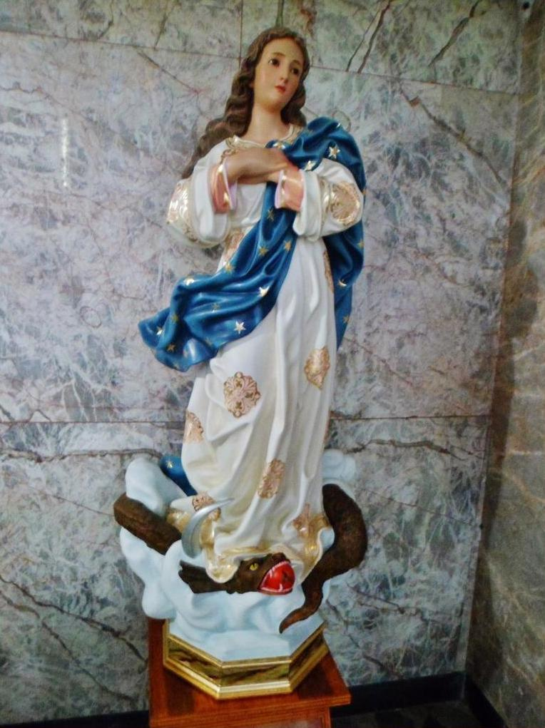 Shrine of Our Lady of Perpetual Help, San Luis Potosi city, San Luis Potosi state, Mexico